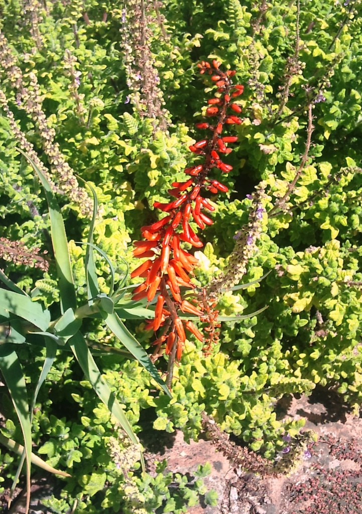 Aloe tenuior var rubriflora